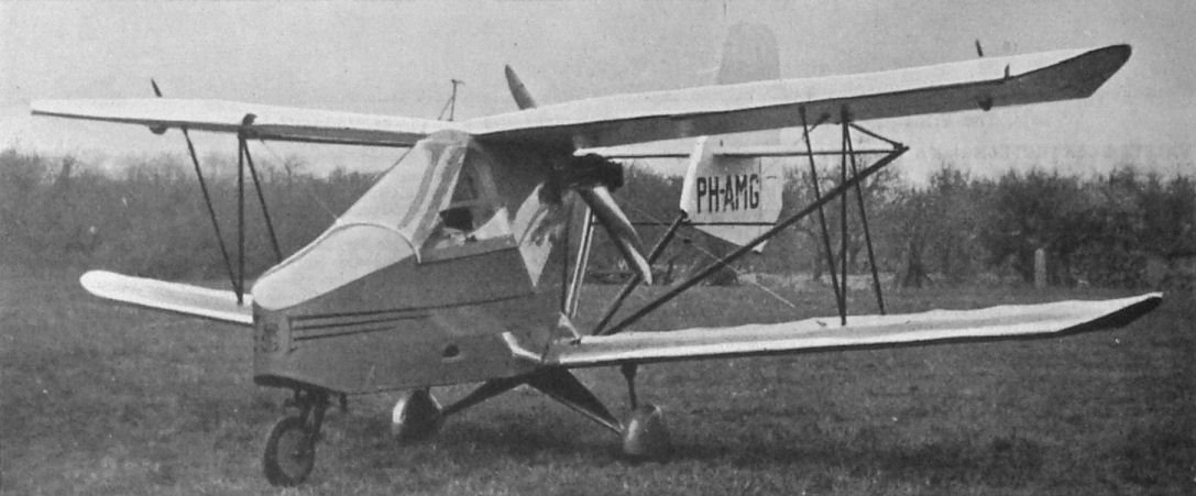 Prototype of an aircraft from the Dutch company De Schelde built 1935. It was a light one seater with a pushing propeller, and one of the first ever with triple landing gears. "Musch" means sparrow in Dutch.